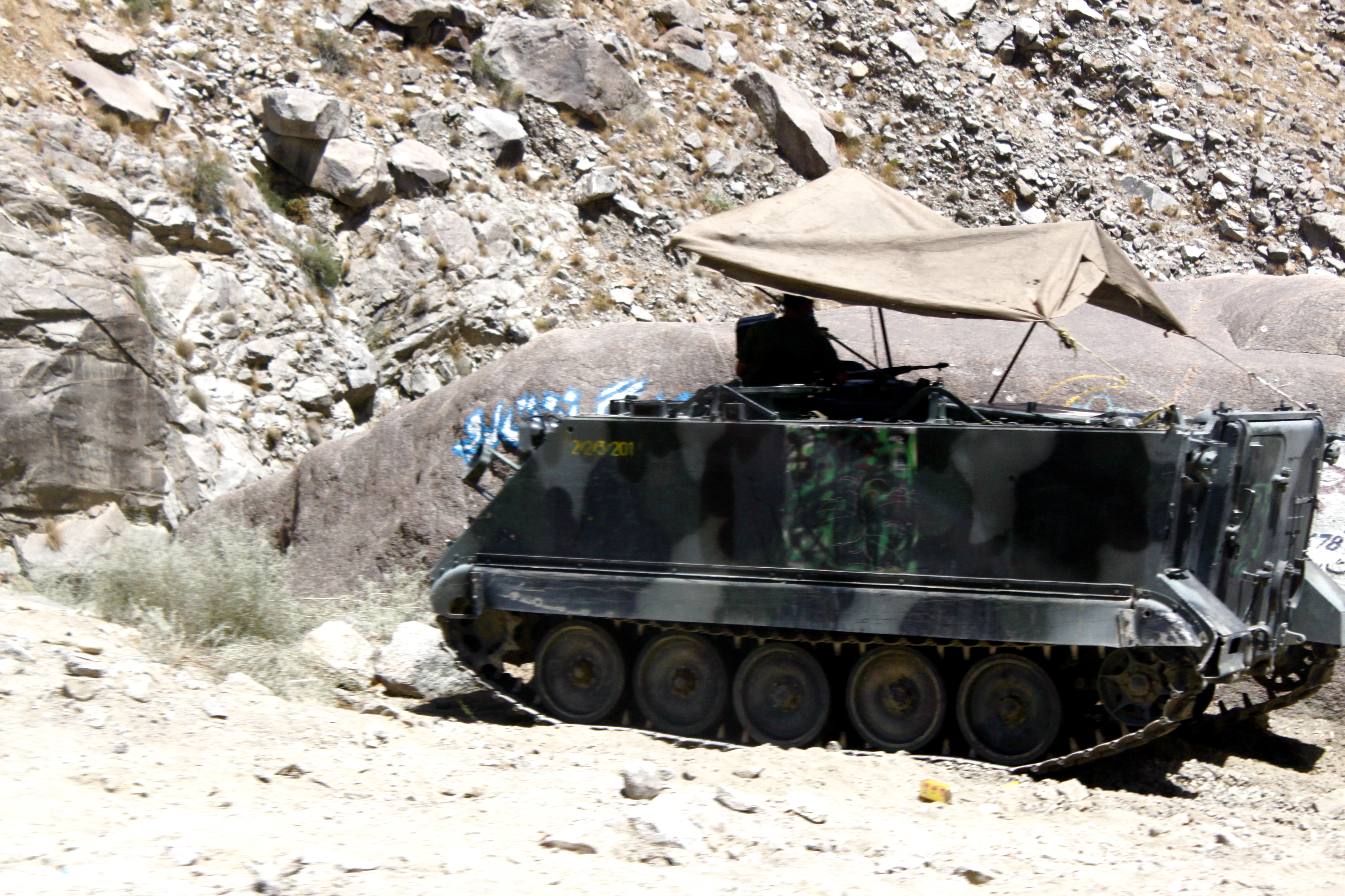 The following is the author's description of the photograph quoted directly from the photograph's Flickr page. "The security has been stepped up considerably with the upcoming elections. "